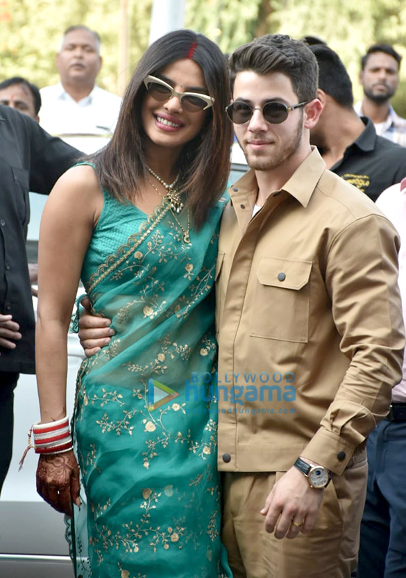 Priyanka Chopra and Nick Jonas at Jodhpur in 2018